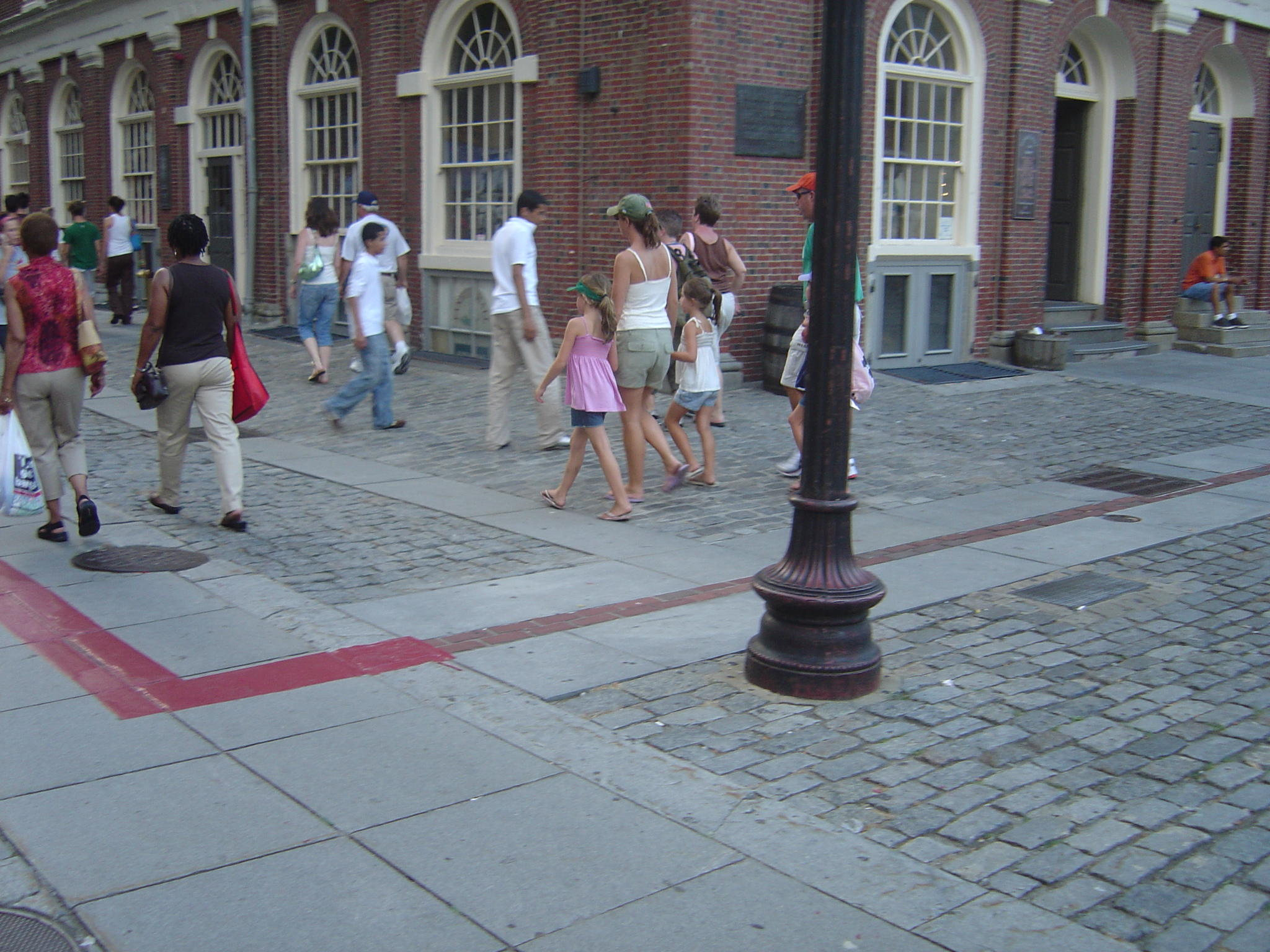 Photograph of the Freedom Trail next to Faneuil Hall Photograph taken by me with a Sony Cybershot Digital camera, July 2006.